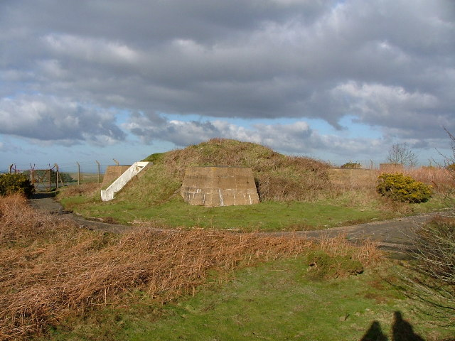 Ventnor Radar Stn Now up for sale, so it might be developed. Link